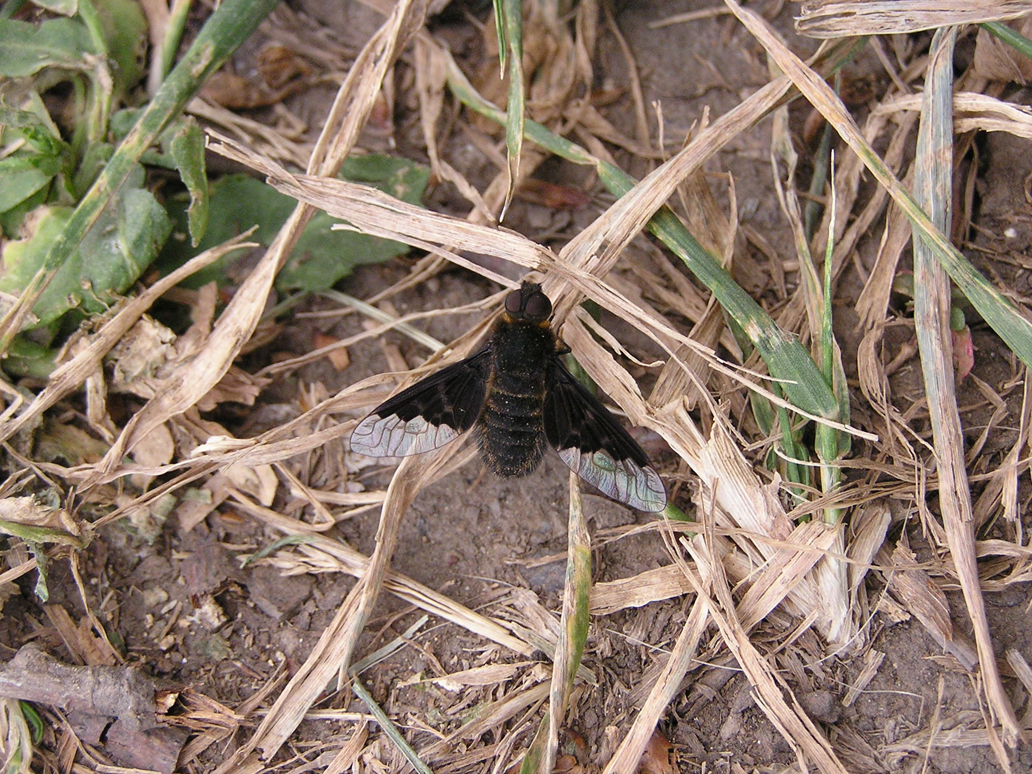 Hemipenthes morio